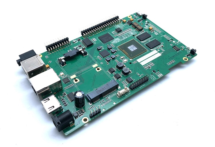 BPI-F2 1